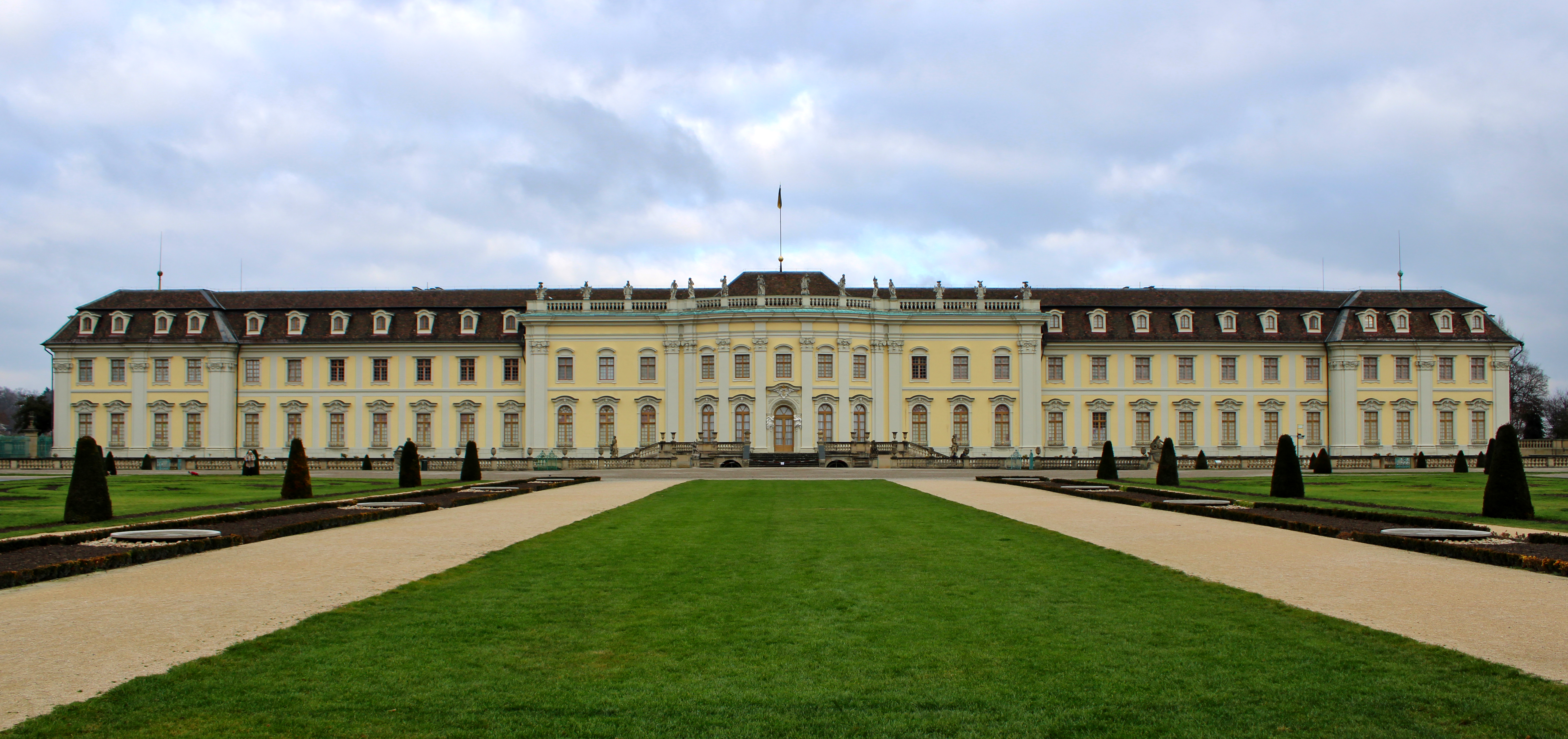 Ludwigsburg Palace in December 2018